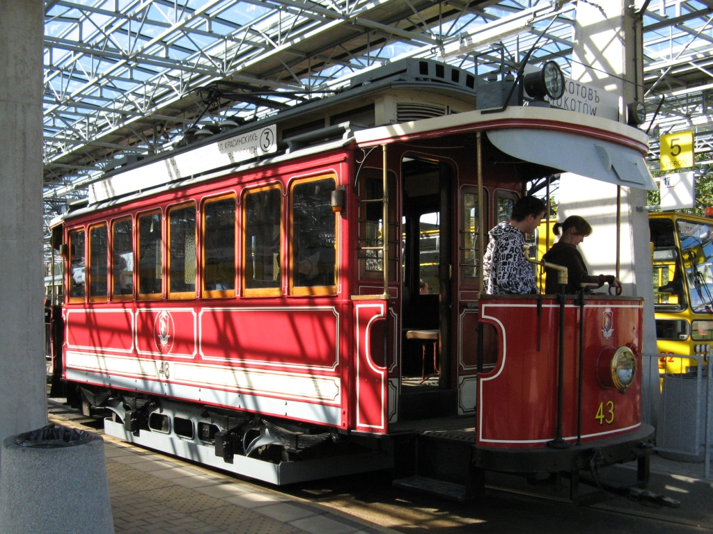 Restored Falkenried Warsaw type A electric tram car (No 43) on display at the tram interchange at the Młociny terminus of the Warsaw Metro during "Public Transport Day" in 2009